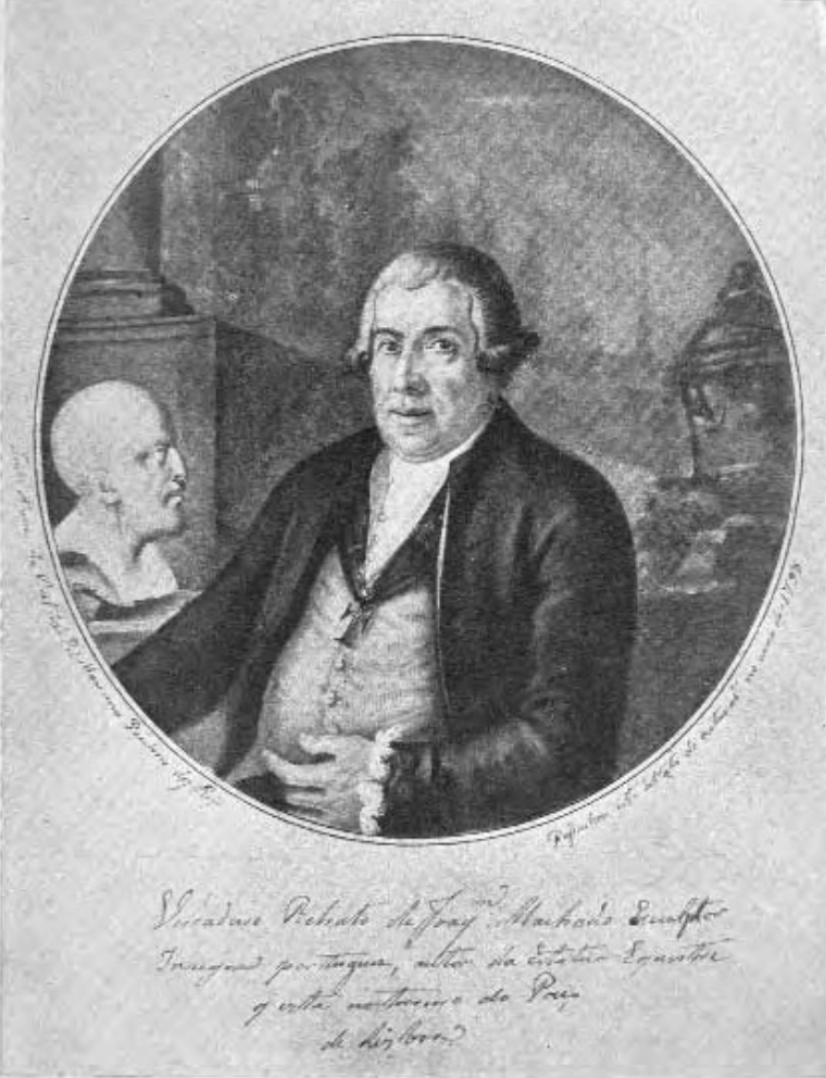 18th-century lithograph of Portuguese sculptor Joaquim Machado de Castro.